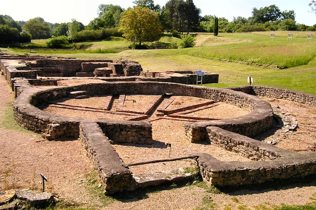 Fontaines Salées archeological site, shared between Saint-Père (Nièvre) and Foissy-lès-Vézelay (Yonne), Bourgogne, France. Thermae ruins, view towards the south-east.